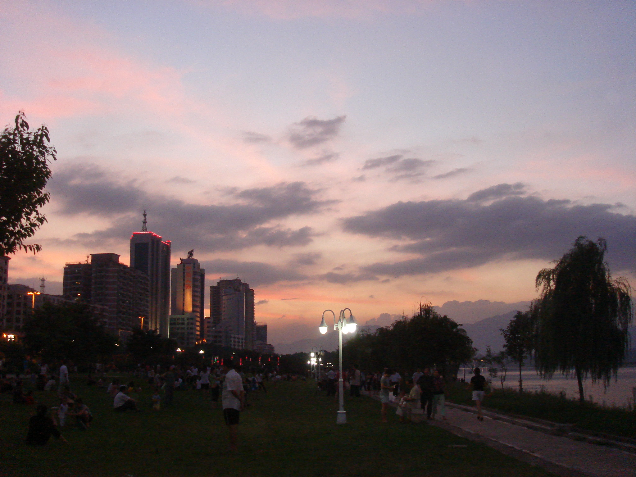 Qingyuan Riverside Park